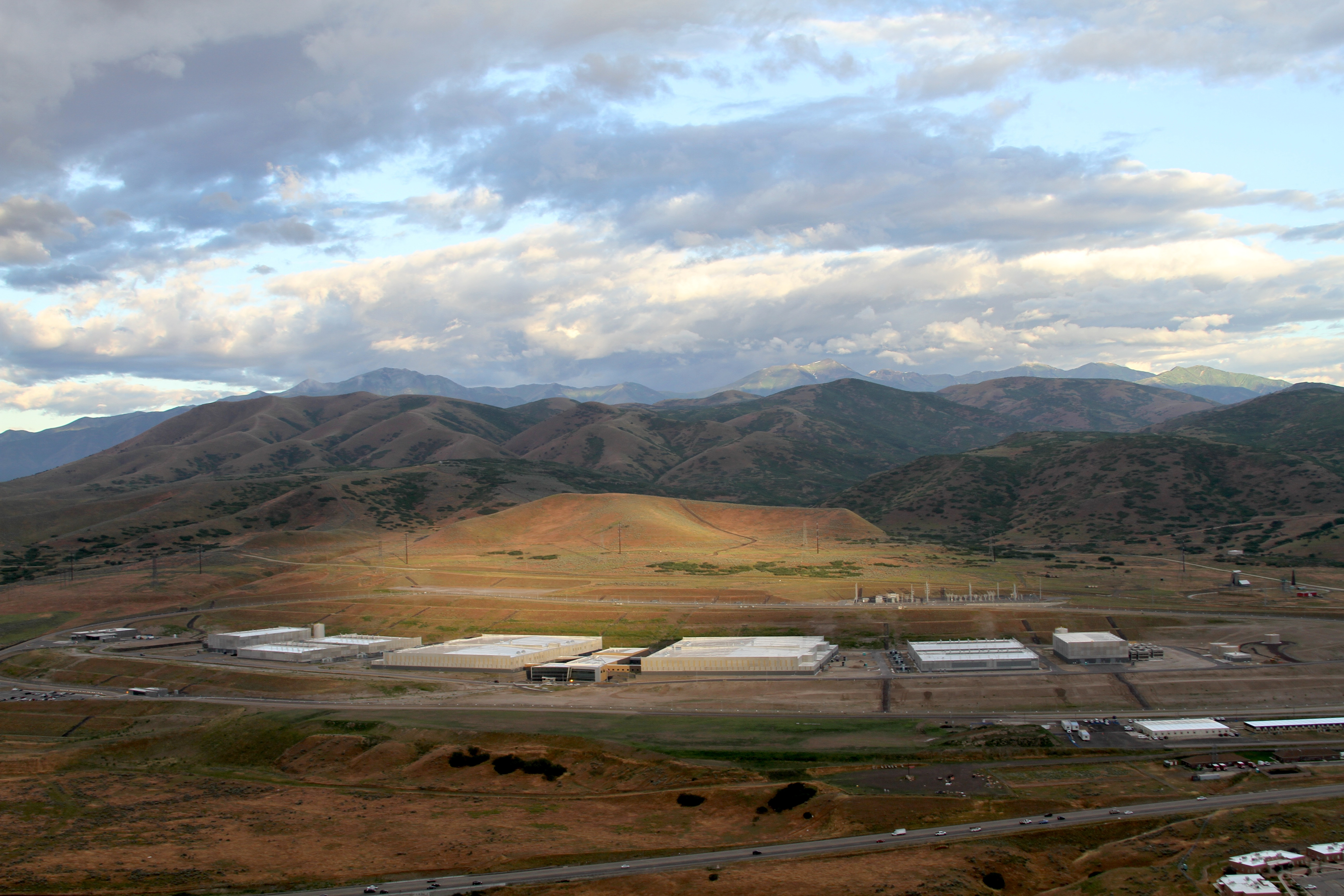 Photograph of the NSA's Utah Data Center, taken by an employee of the Electronic Frontier Foundation during an airship flight.